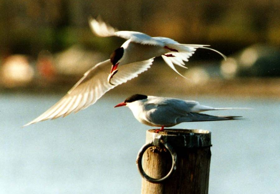 Tern showing a tasty fish to his friend